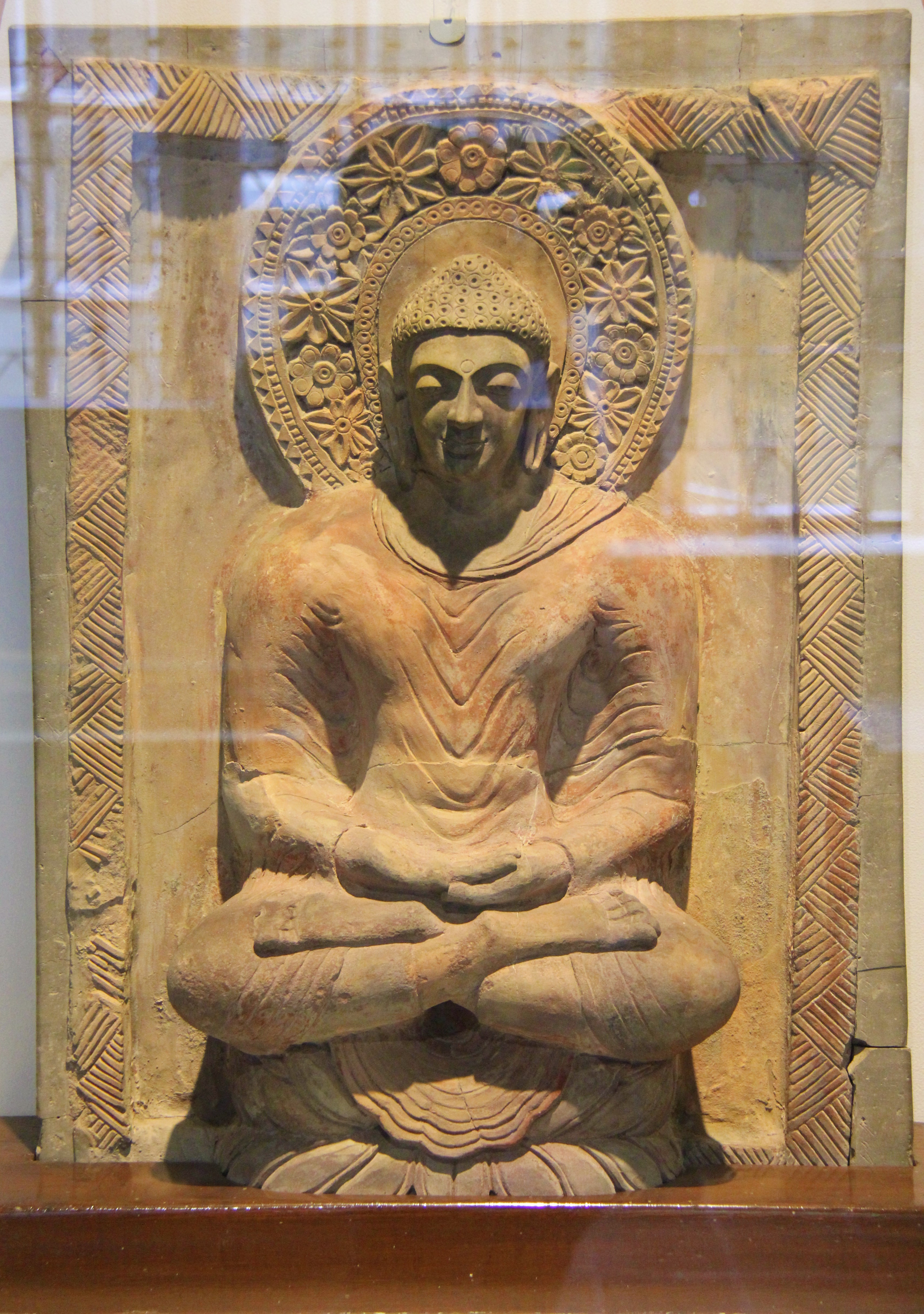 Gautama Buddha statue made of Terracotta dating back to 5th century CE. Statue found in Mirpurkhas (present day Pakistan). On display at Prince of Wales museum, Mumbai.